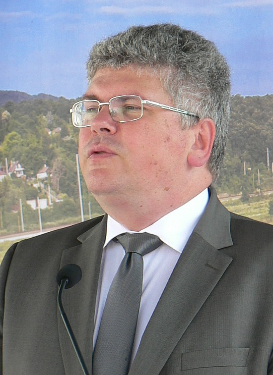 Becsey Zsolt (2015)